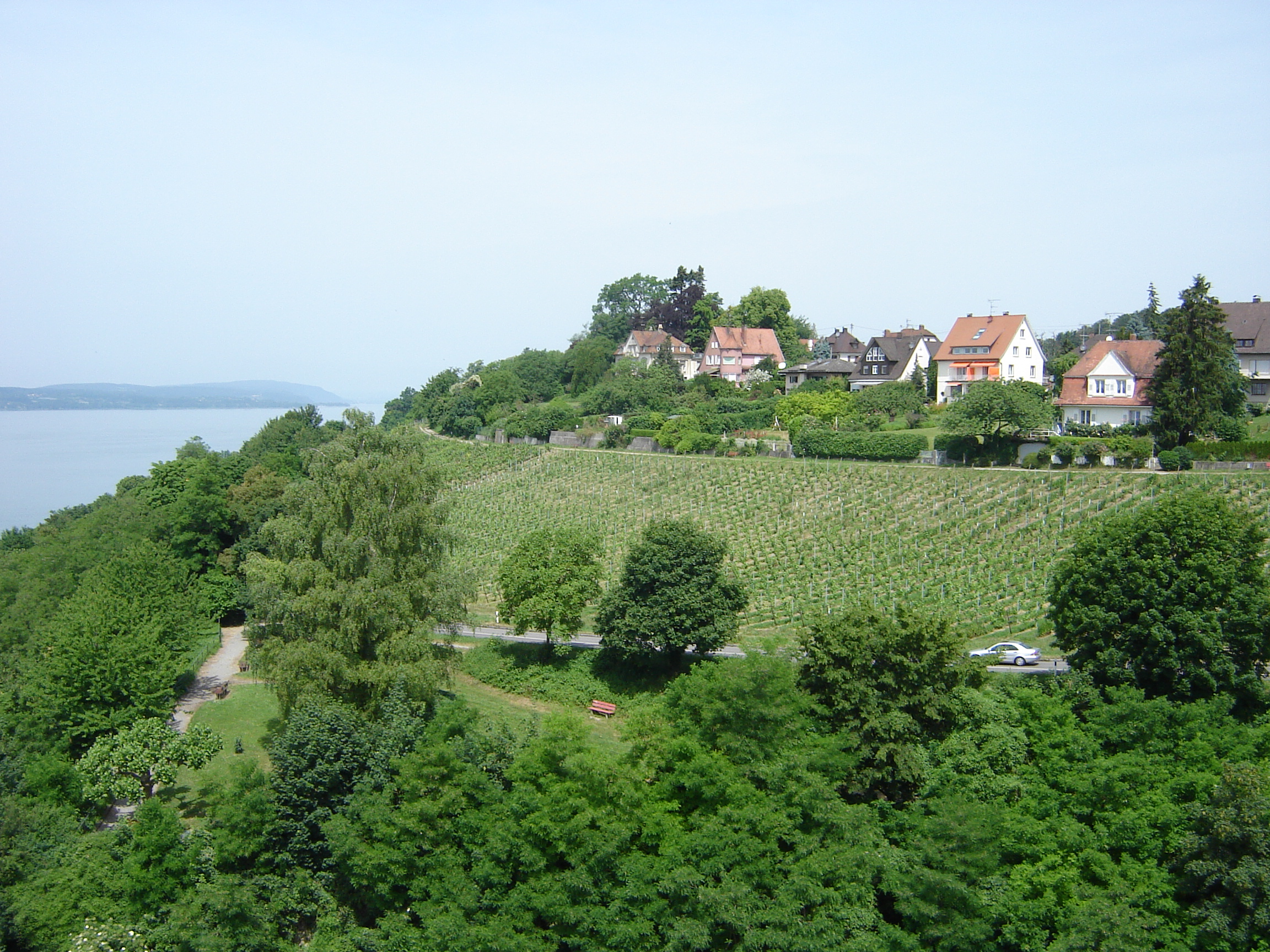 German vineyards in Meersburg overlooking Lake Constance, as seen from the tower of the Castle Meersburg.